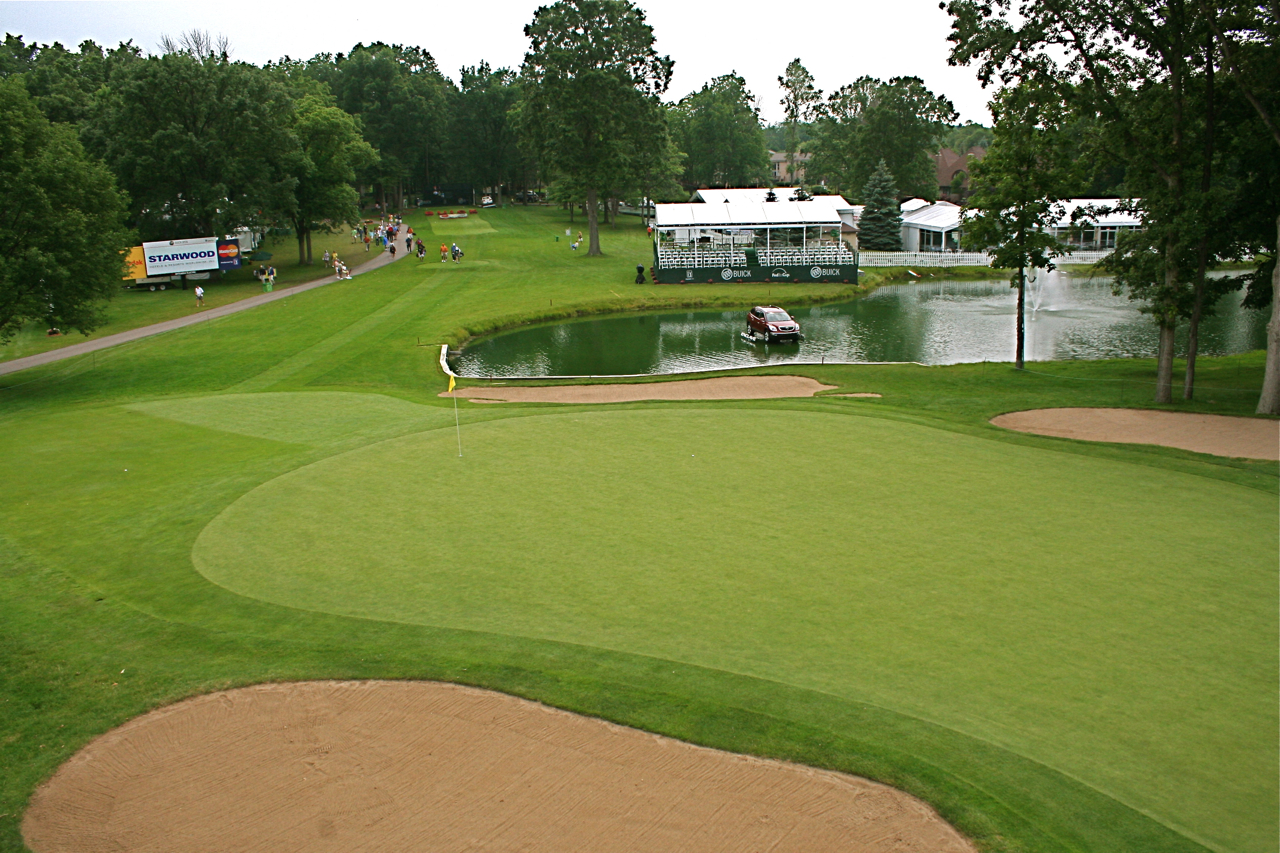 This image is an overview of hole 17th at Warwick Hills golf and Country Club in Grand Blanc, MI. It was taken in August of 2008. Uploaded per request at Wikipedia:Images for upload.